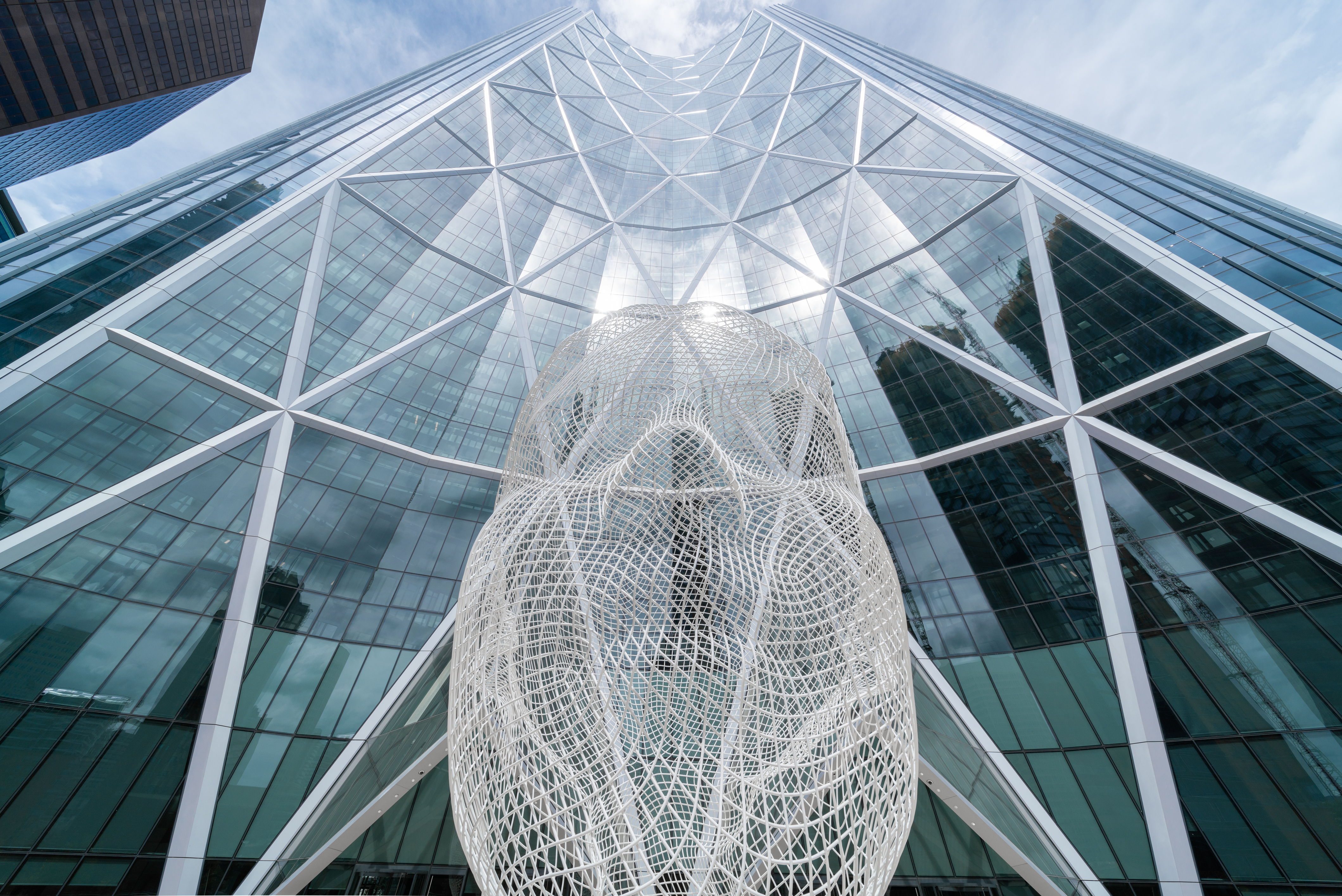 The Bow is a 158,000-square-metre (1,700,000 sq ft) office building for the headquarters of Encana Corporation and Cenovus Energy, in downtown Calgary, Alberta. The 236 metre (774 ft) building is currently the second tallest office tower in Calgary, since construction of Brookfield Place; and the third tallest in Canada outside Toronto. The Bow is also considered the start of redevelopment in Calgary's Downtown East Village. It was completed in 2012 and was ranked among the top 10 architectural projects in the world of that year according to Azure magazine